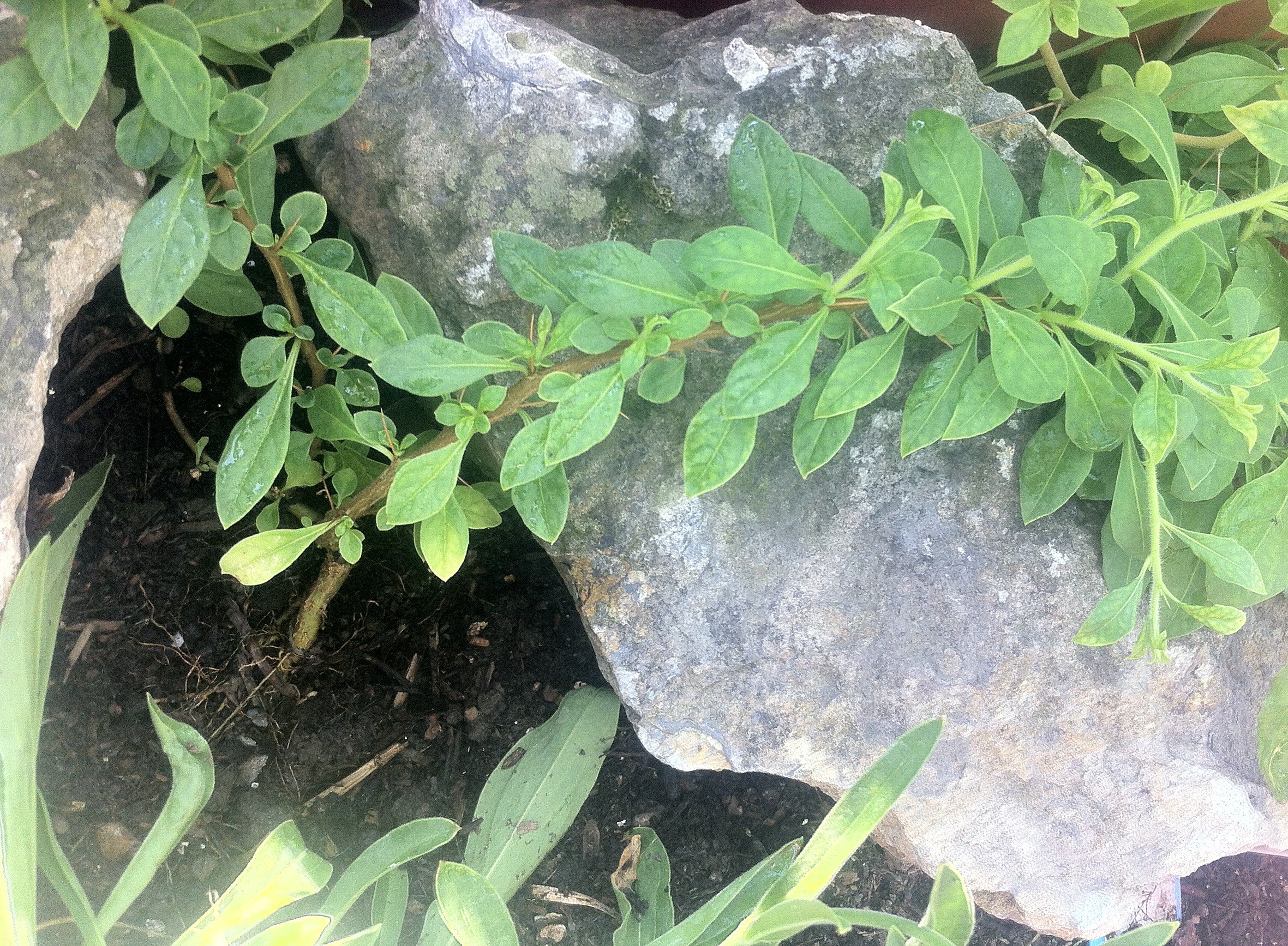 Latua pubiflora at 2 years old in the U.K